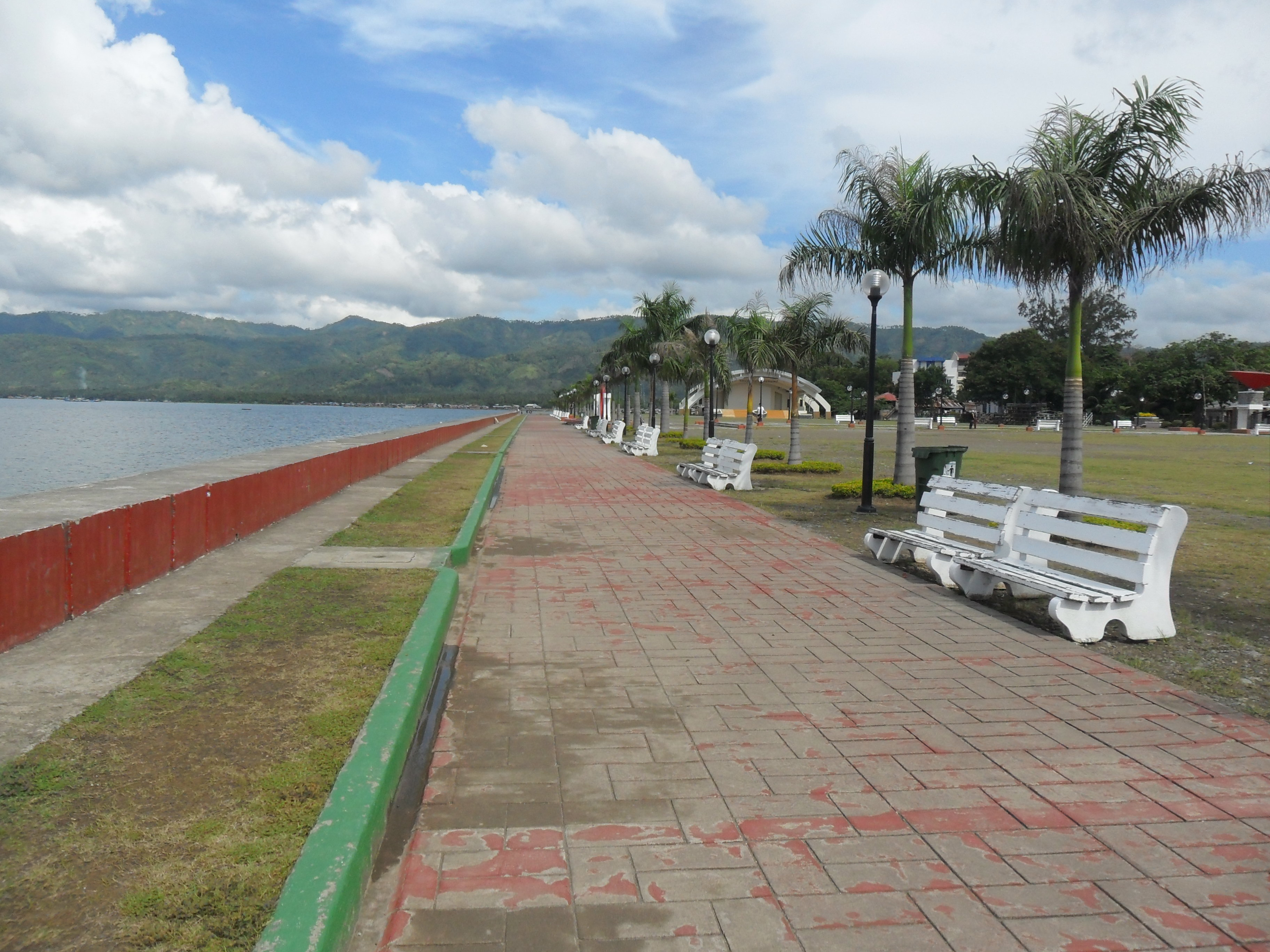 The Baywalk of Mati